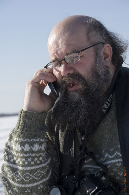 Sculptor